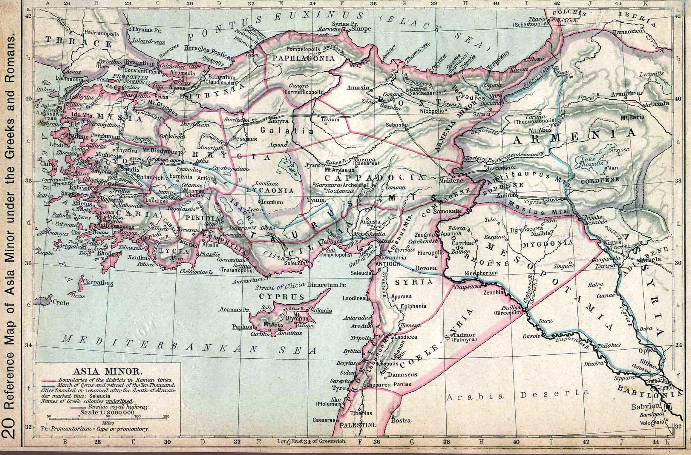 Map of Asia Minor. Historical Atlas